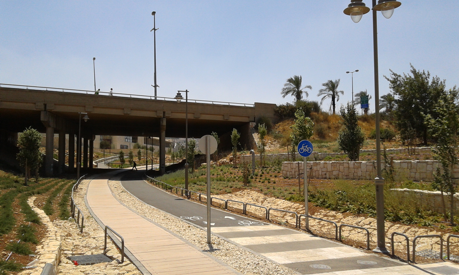 Jerusalem, HaMesila Park, former Railway under Dov Yosef street